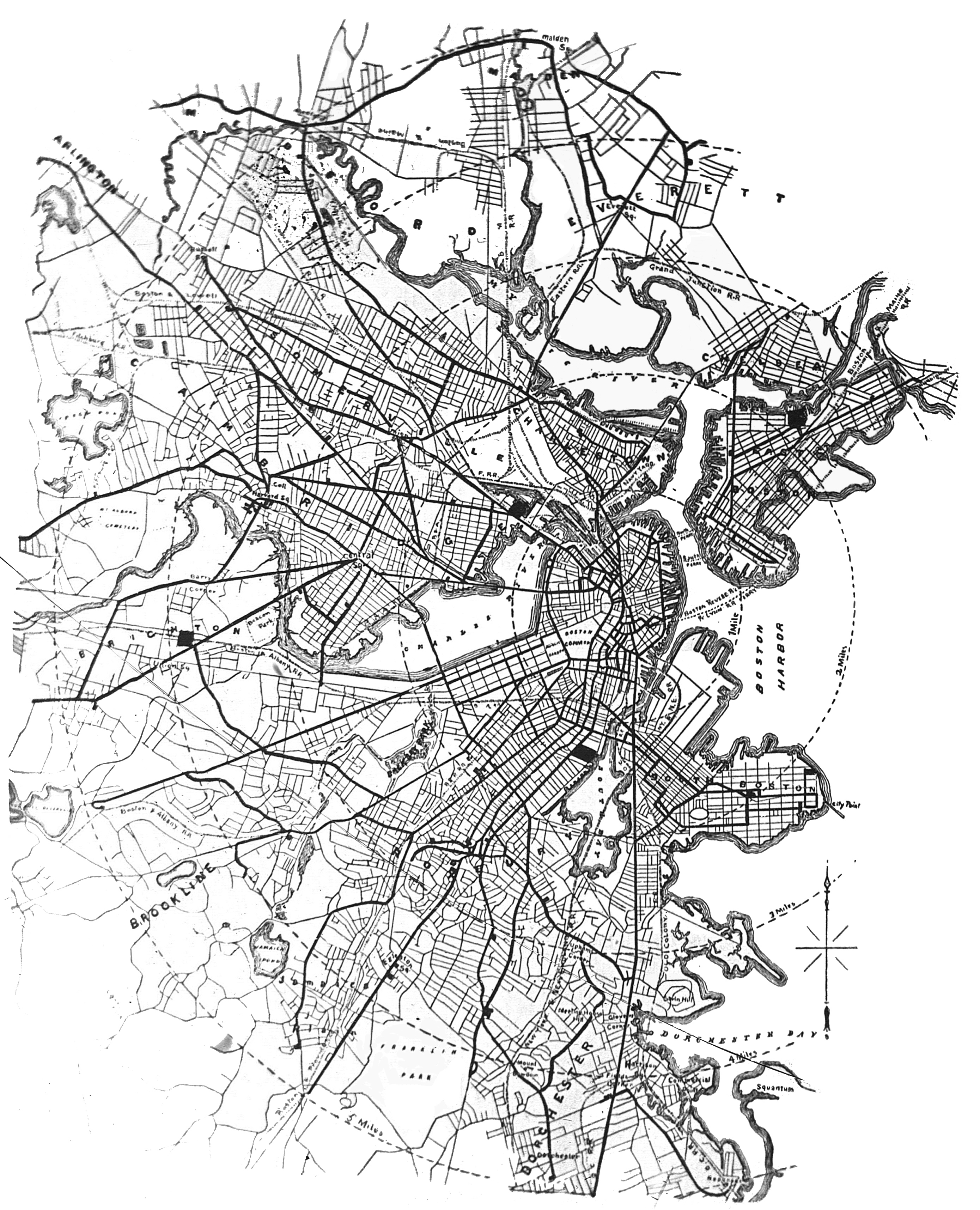 1892 map of the West End Street Railway system in Boston, Massachusetts